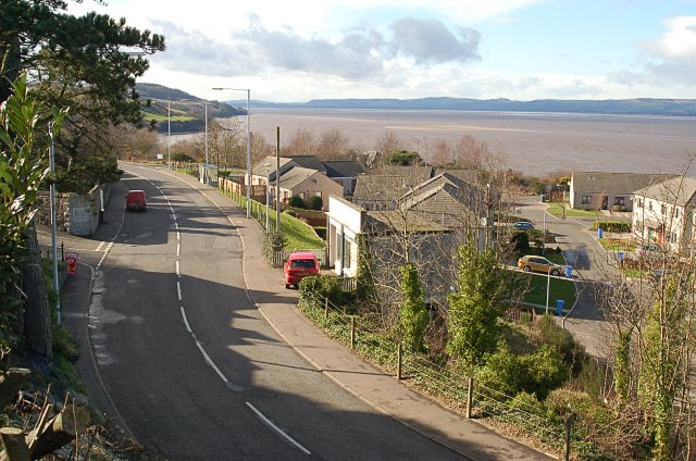 Wormit